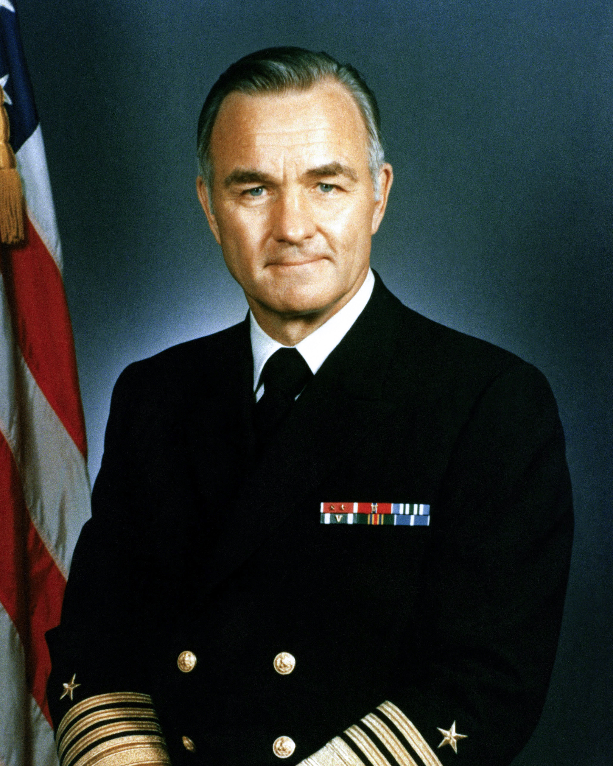 Stansfield Turner, retired United States Navy admiral and former CIA director, in June 1983.